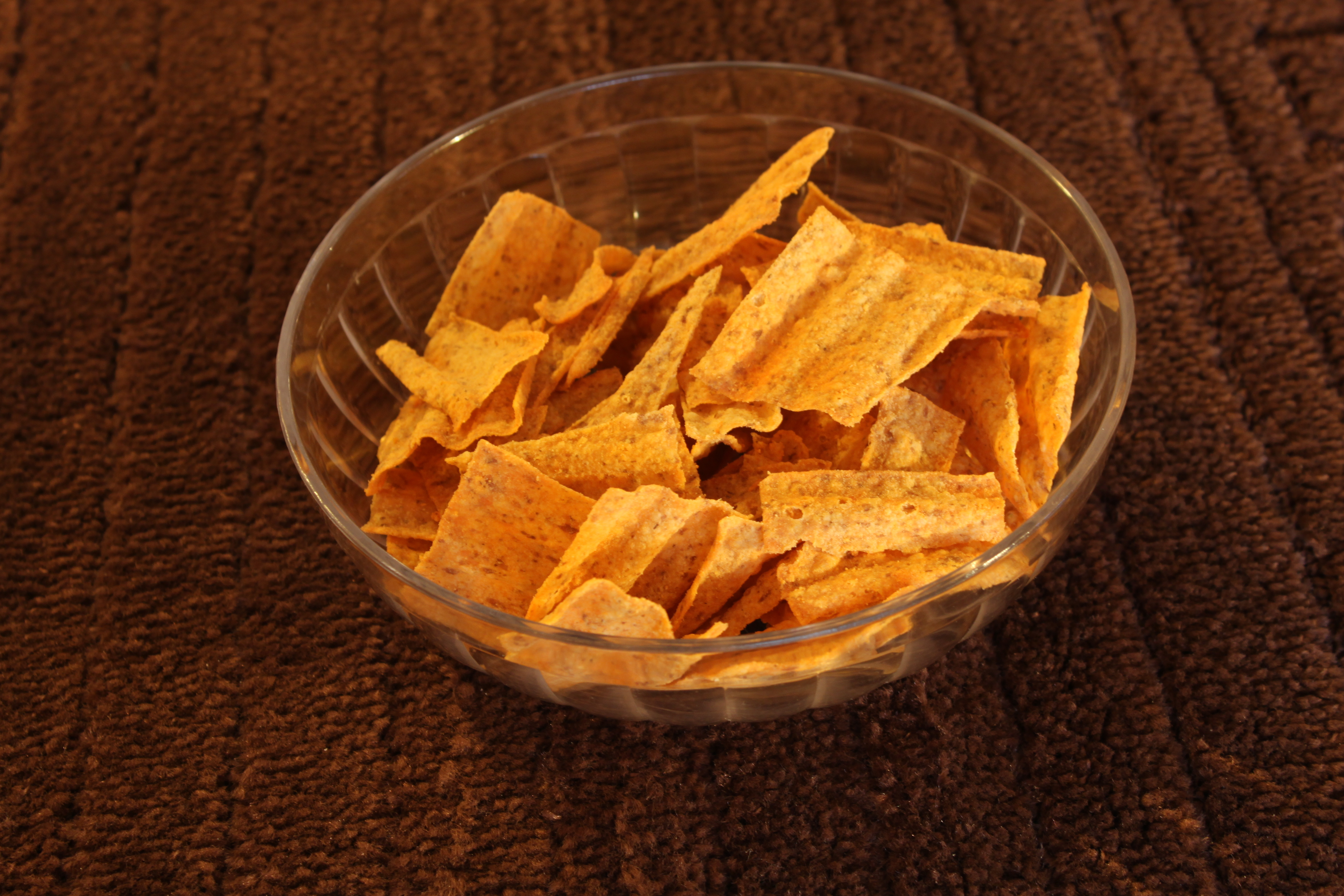 Harvest Cheddar flavored SunChips. Manufactured by Frito-Lay.